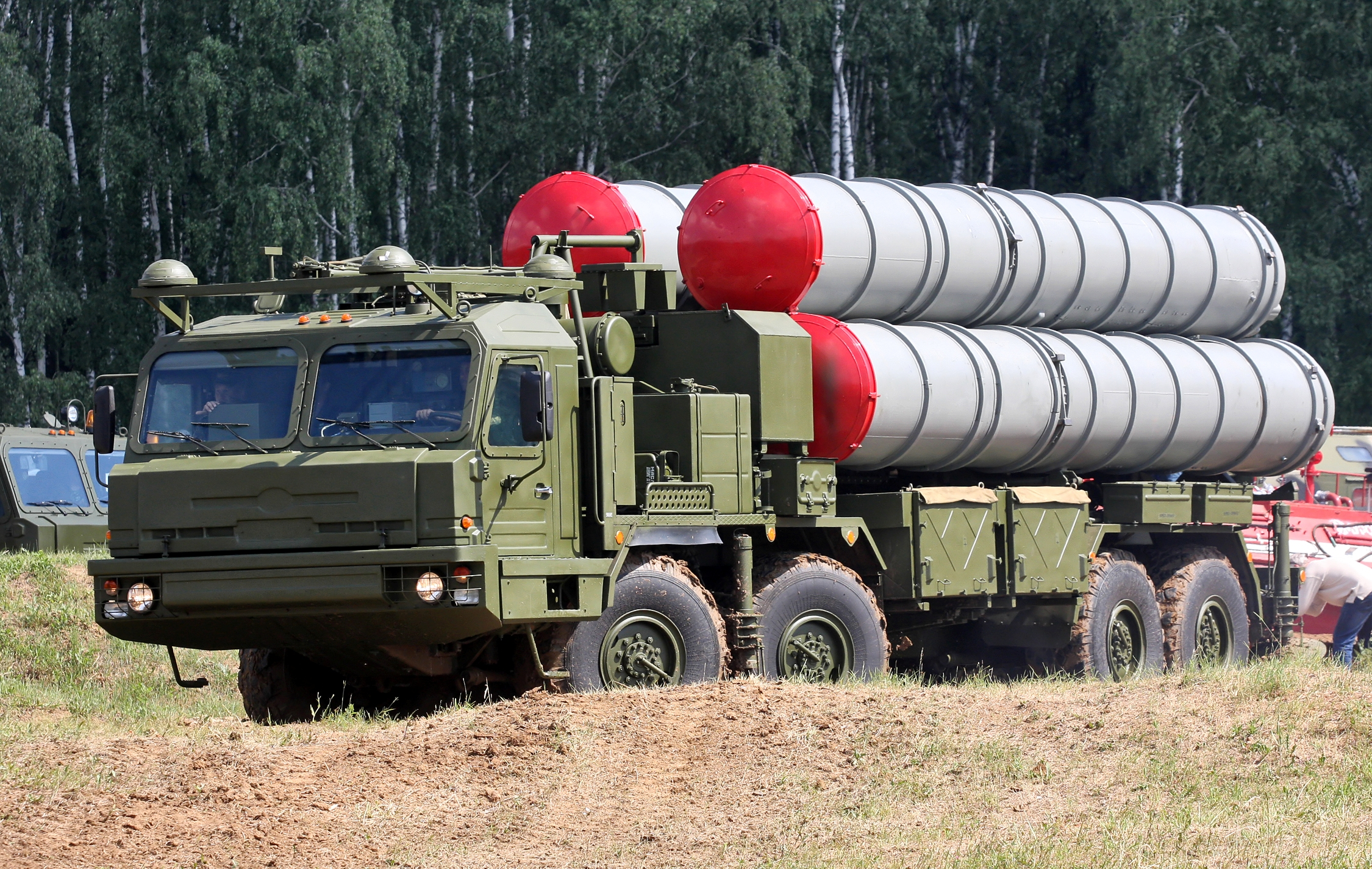 The self-propelled launch vehicle 5P90S on a BAZ-6909-022 chassis for the S-400 system.